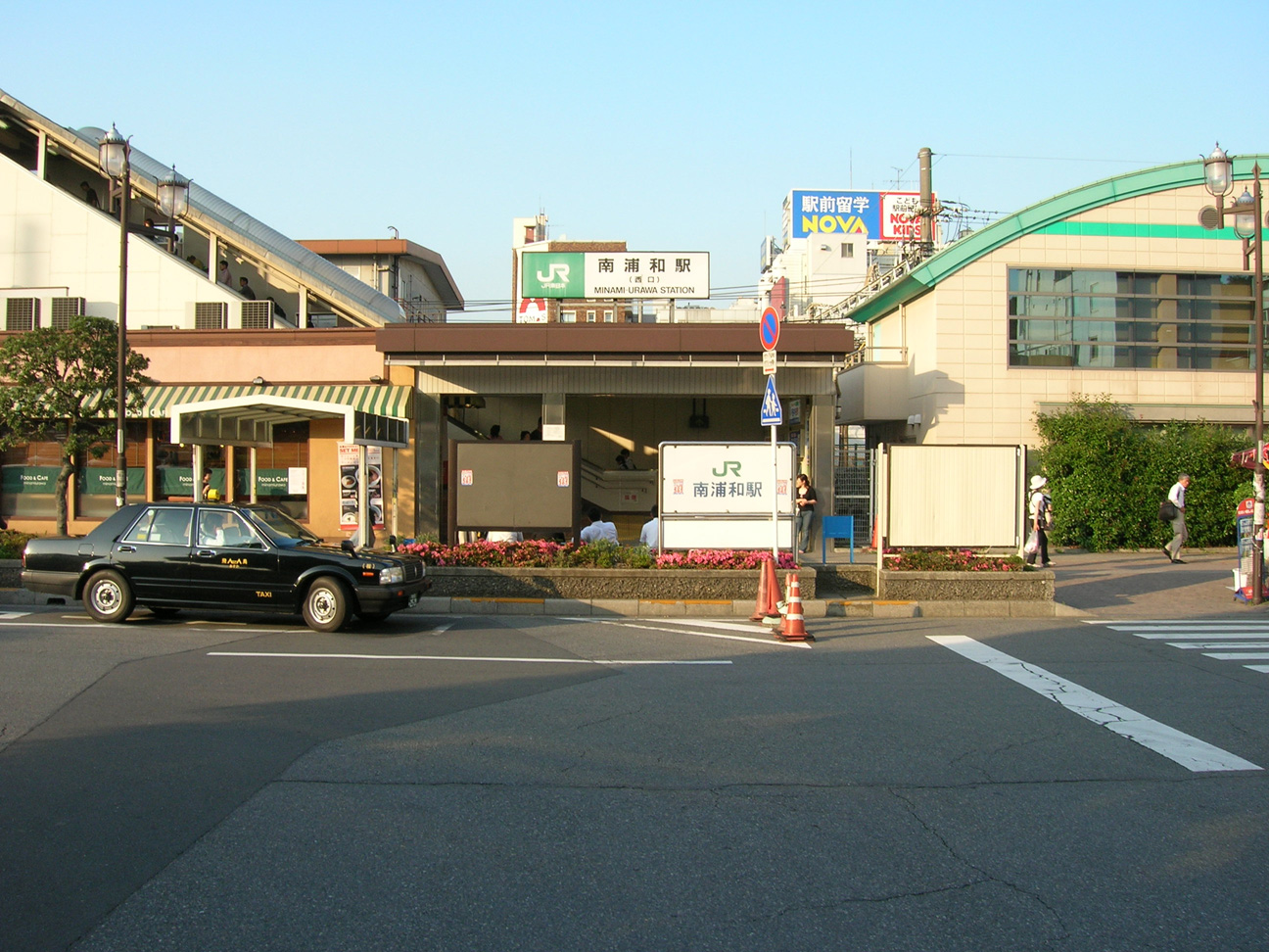 West Exit of Minami-Urawa Station